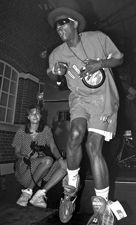 Flavor Flav / Public Enemy during a concert at the Slaughterhouse in Malmö in 1991.